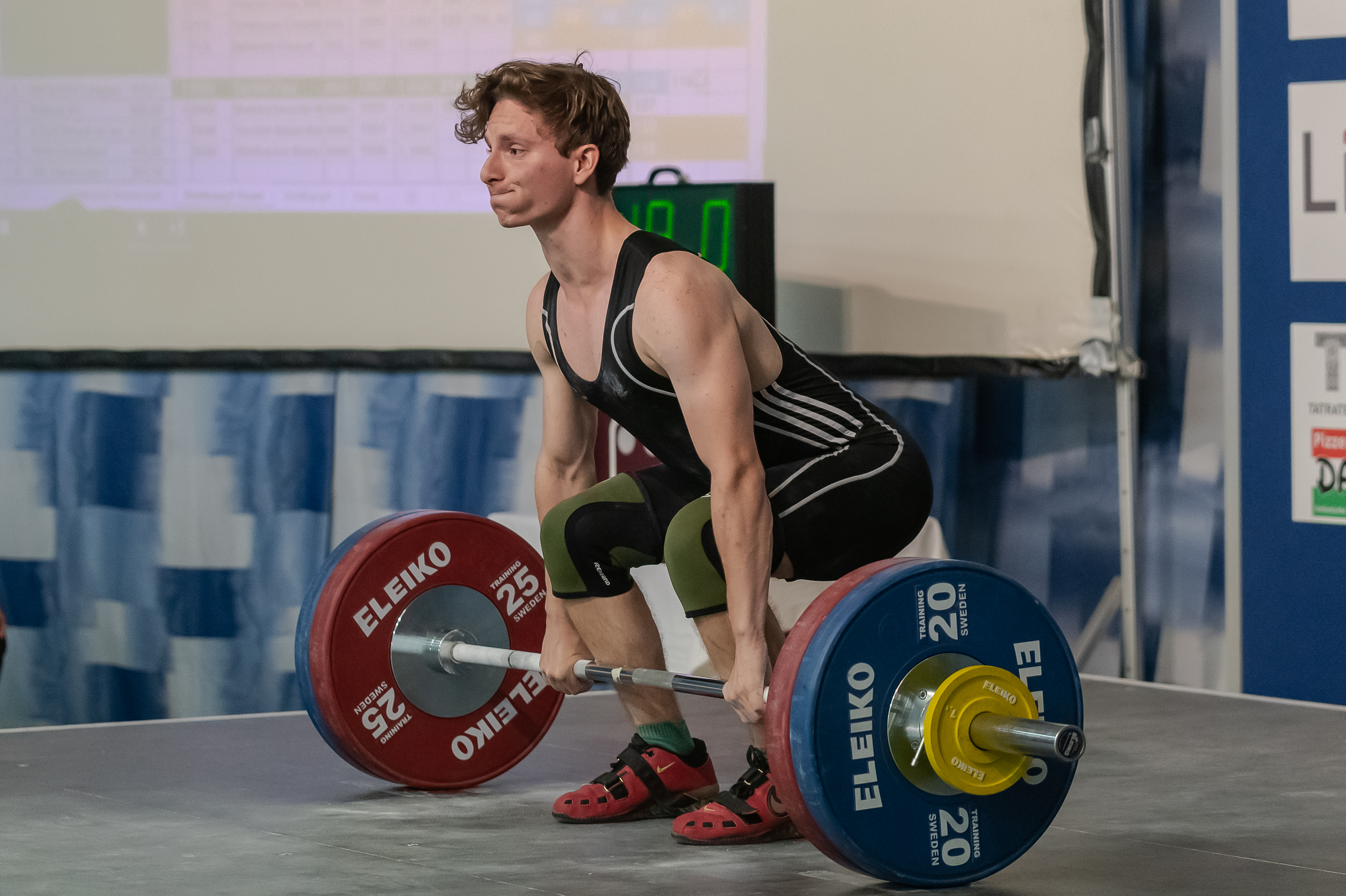 Weightlifting finals Austrian Bundesliga 2018, Sportpark Auwiesen, Linz Upper Austria/ Clean and jerk / Paul Tischler, ATUS Bruck an der Mur